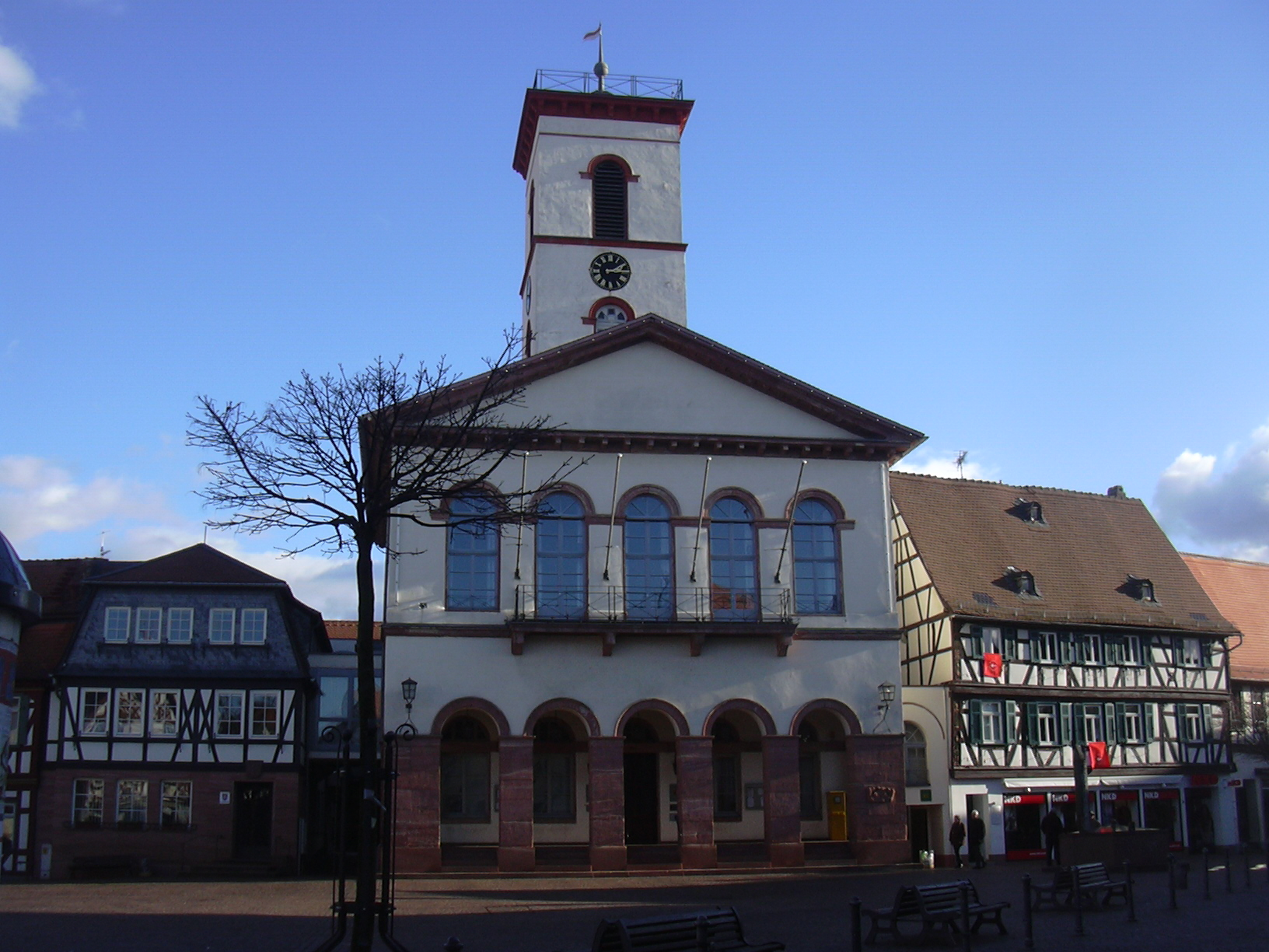 Seligenstadt, town hall (19th century)